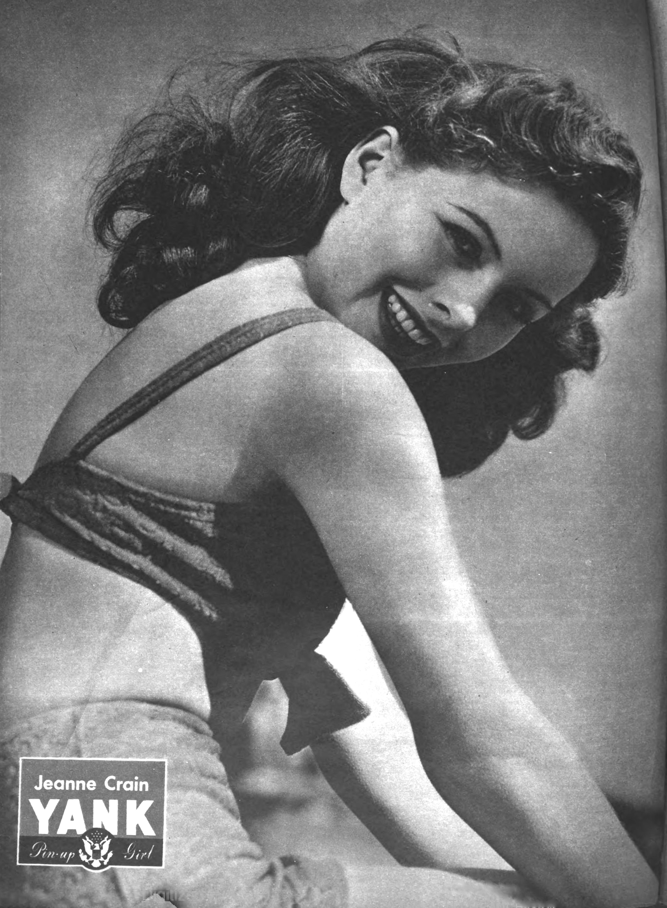 Pin-up photo of Jeanne Crain for the Aug. ?, 1945 issue of Yank, the Army Weekly, a weekly U.S. Army magazine fully staffed by enlisted men.